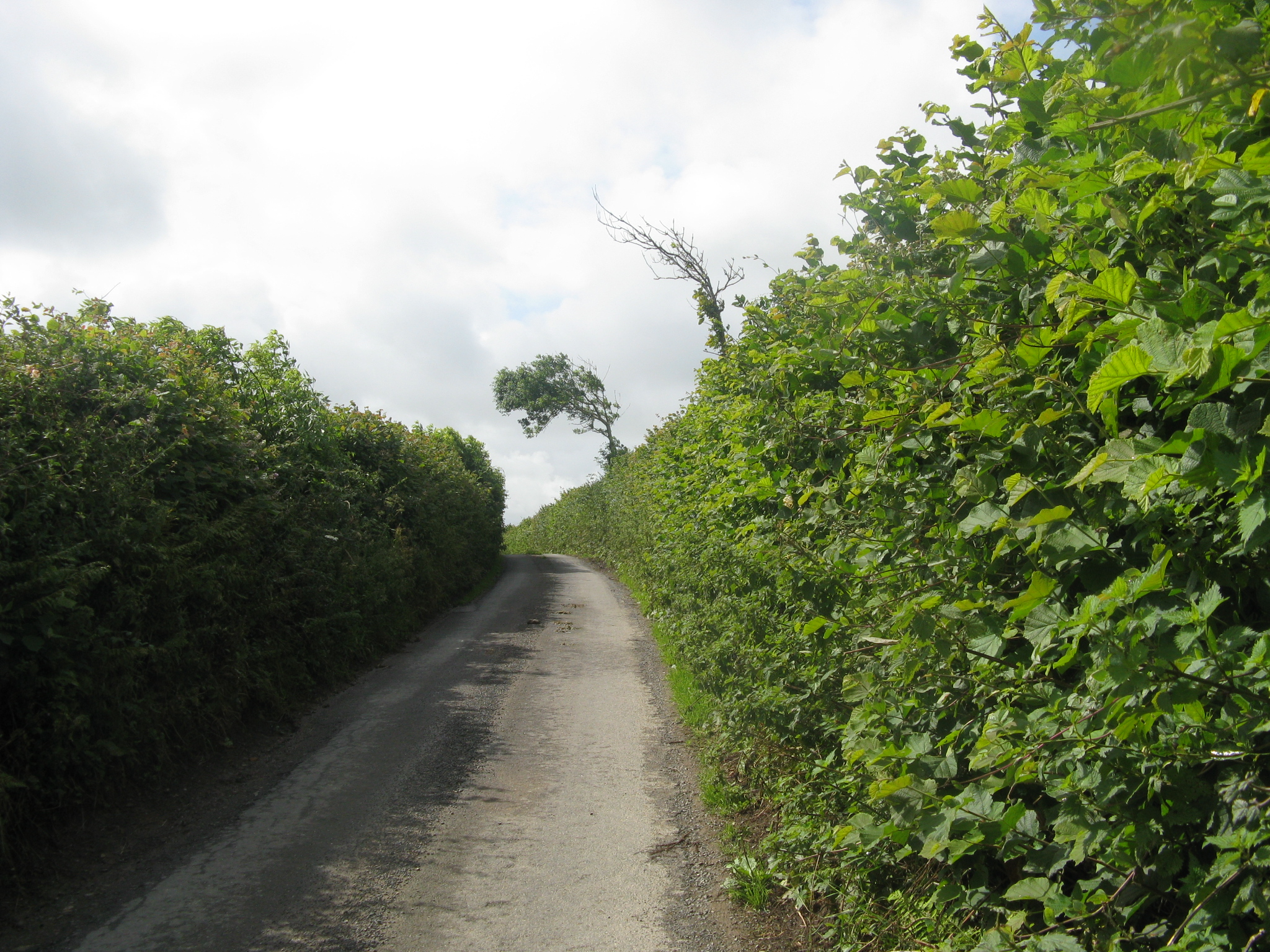 Road to Mortehoe, hedges